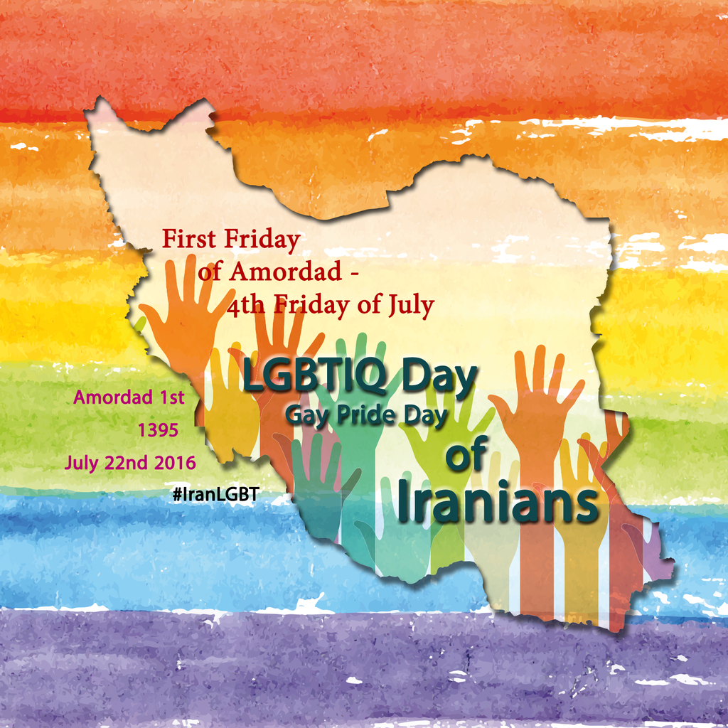 IranPride day 2016 English poster